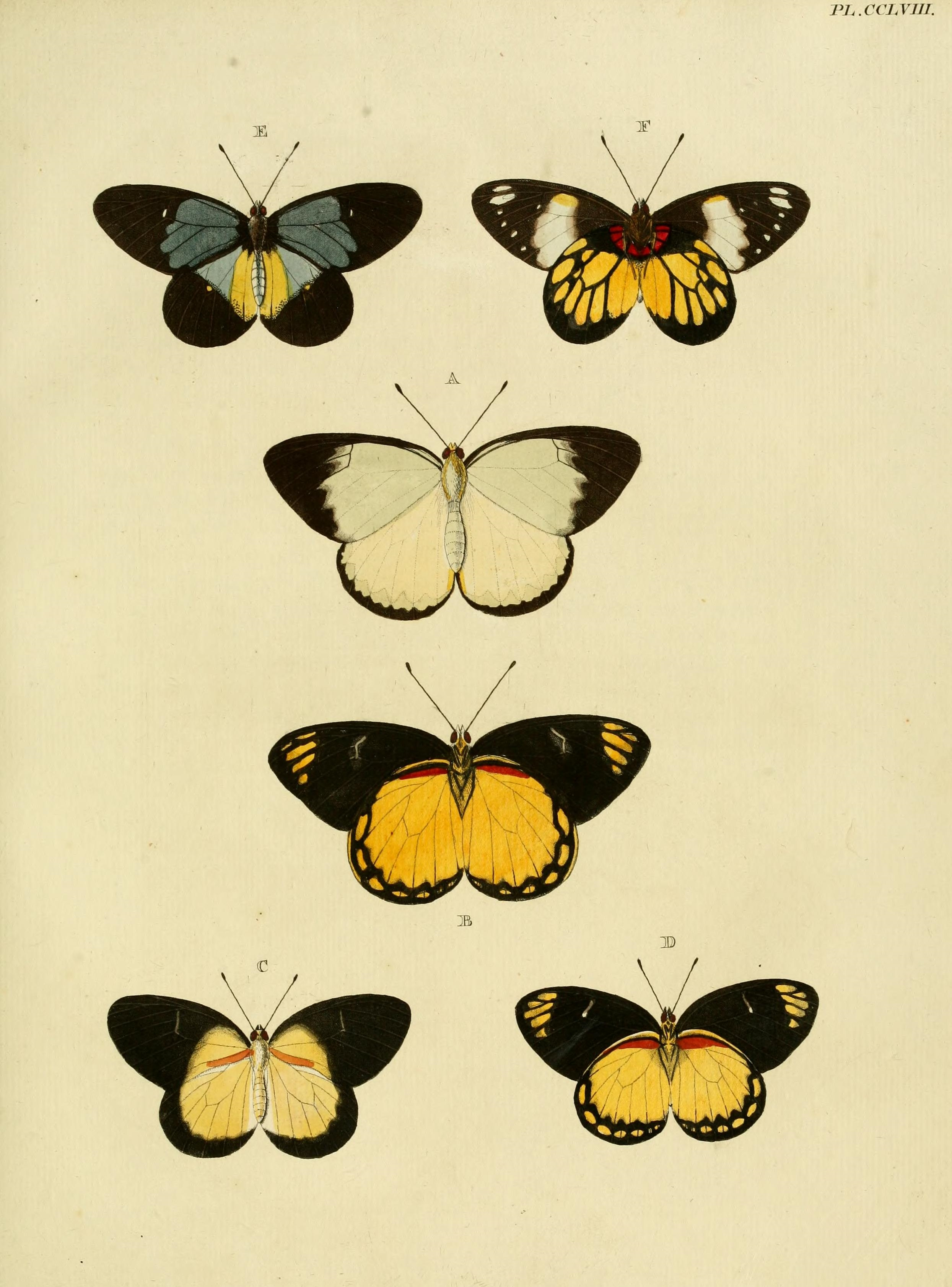 Plate CCLVIII A, B (♀), C, D (♂): "(Papilio) Belisama" ( = Delias belisama (Cramer, [1780]) iconotype?), see Funet. E, F: "(Papilio) Egialea" ( = Delias pasithoe egialea (Cramer, [1777])), see Funet. Male. Female on plate 189 D, E.